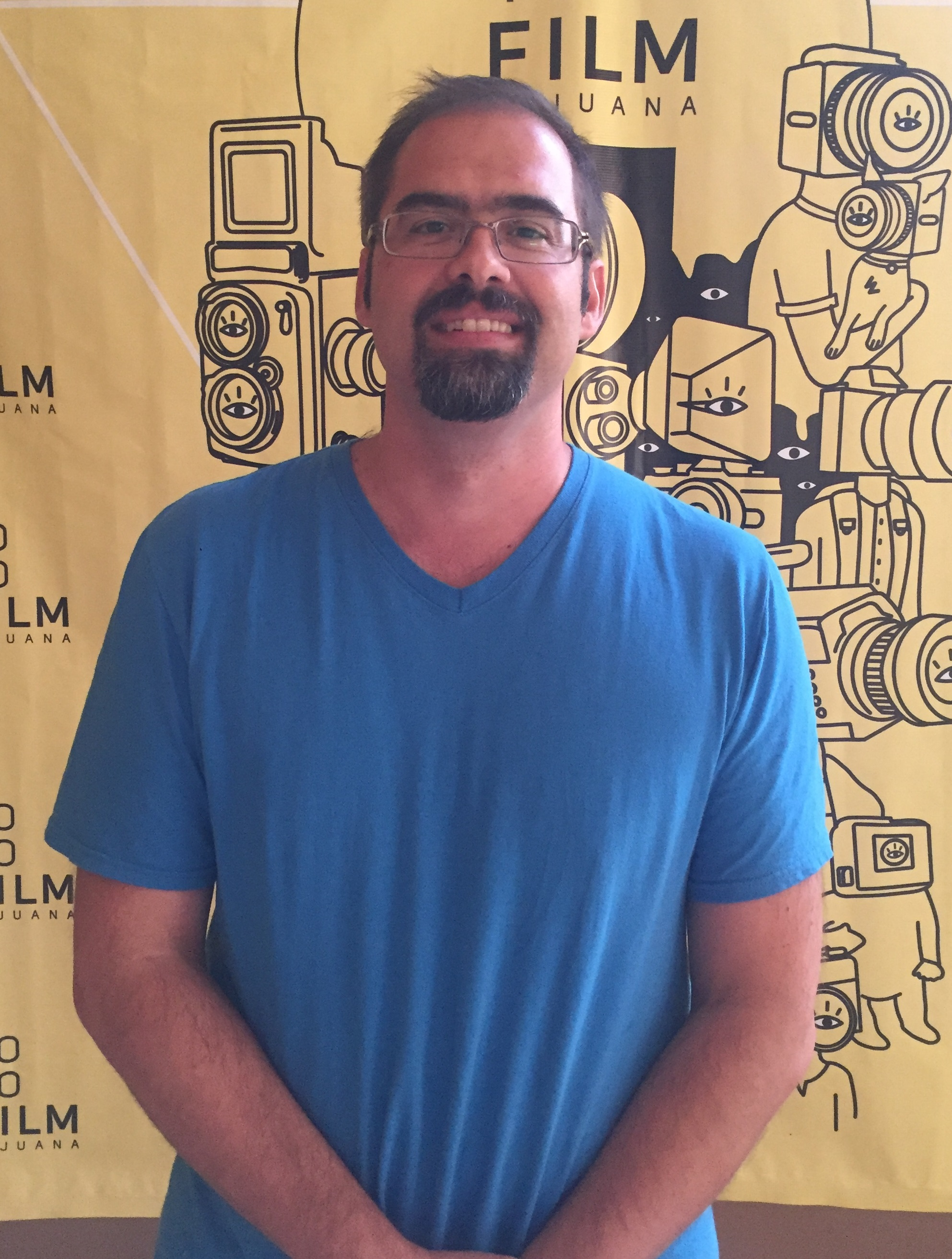 Diego Ros, following the exhibition of his film "The Night Guard / El Vigilante", Official Selection at the FotoFilm Tijuana festival, held in Tijuana, Mexico, July 2018, at the Tijuana's Cultural Center (CECUT).